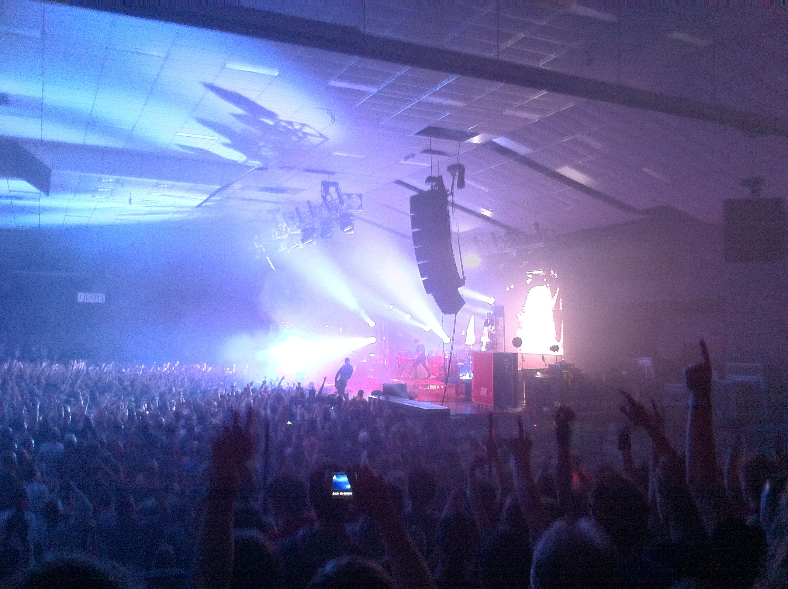 Pendulum Live at Festival Hall Nov 1, 2010 in Melbourne